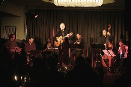 Gruener Salon